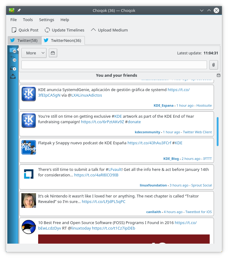 Screenshot from choqoK, the KDE micro-blogging client